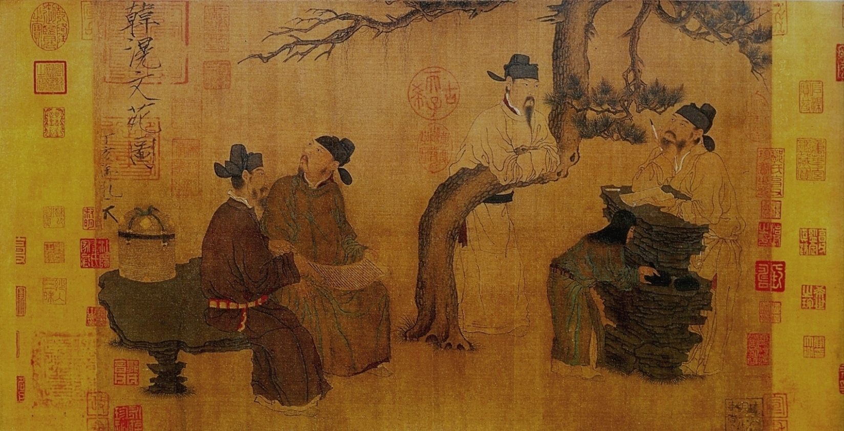 Zhou Wenju (ca. 907-975), Five Dynasties (907-960) Undated, handscroll, ink and colors on silk, h: 37.4 cm, w: 58.5 cm (see [1])